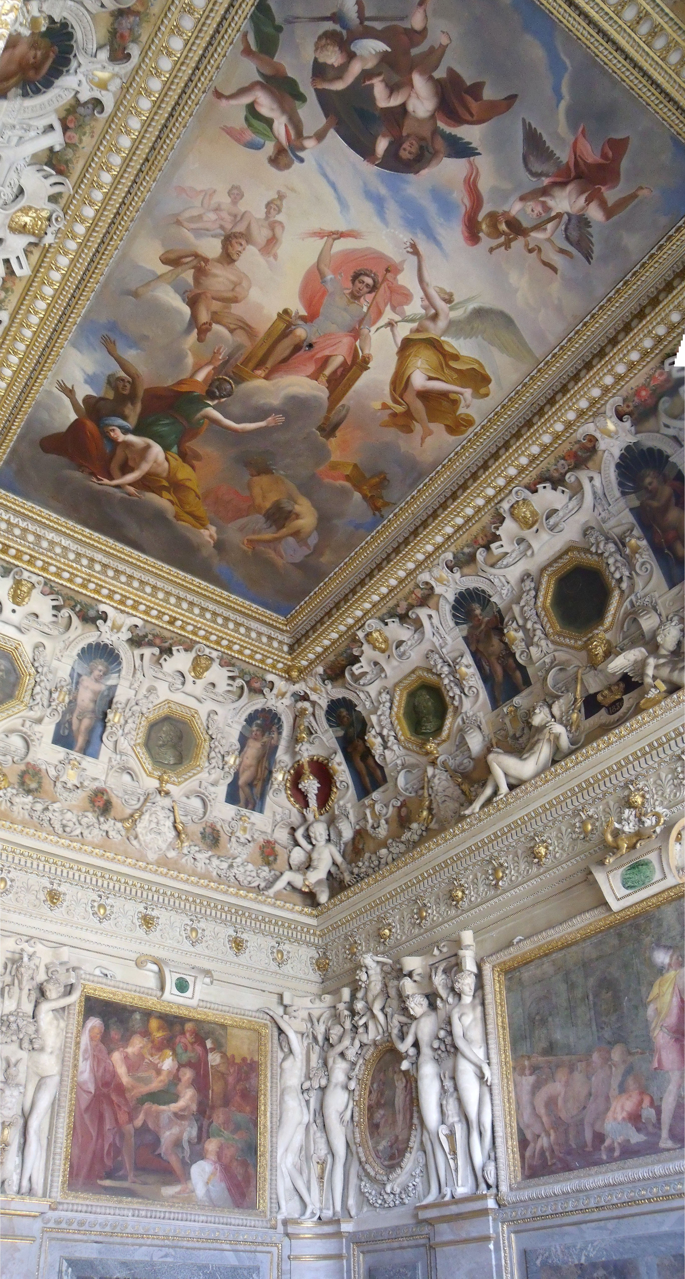 King's staircase, Palace of Fontainebleau.